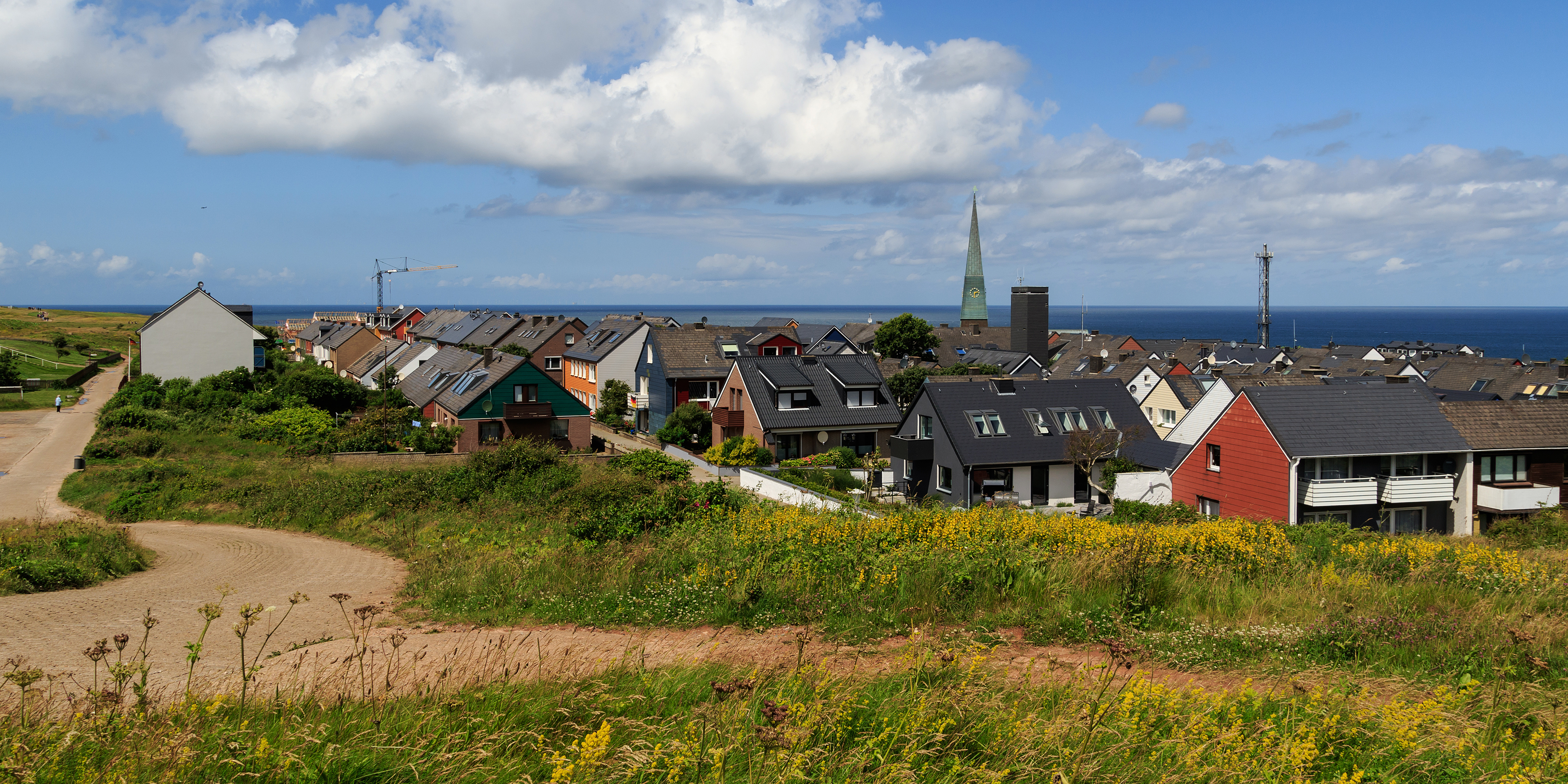 View of the settlement from upper island of Heligoland, Germany